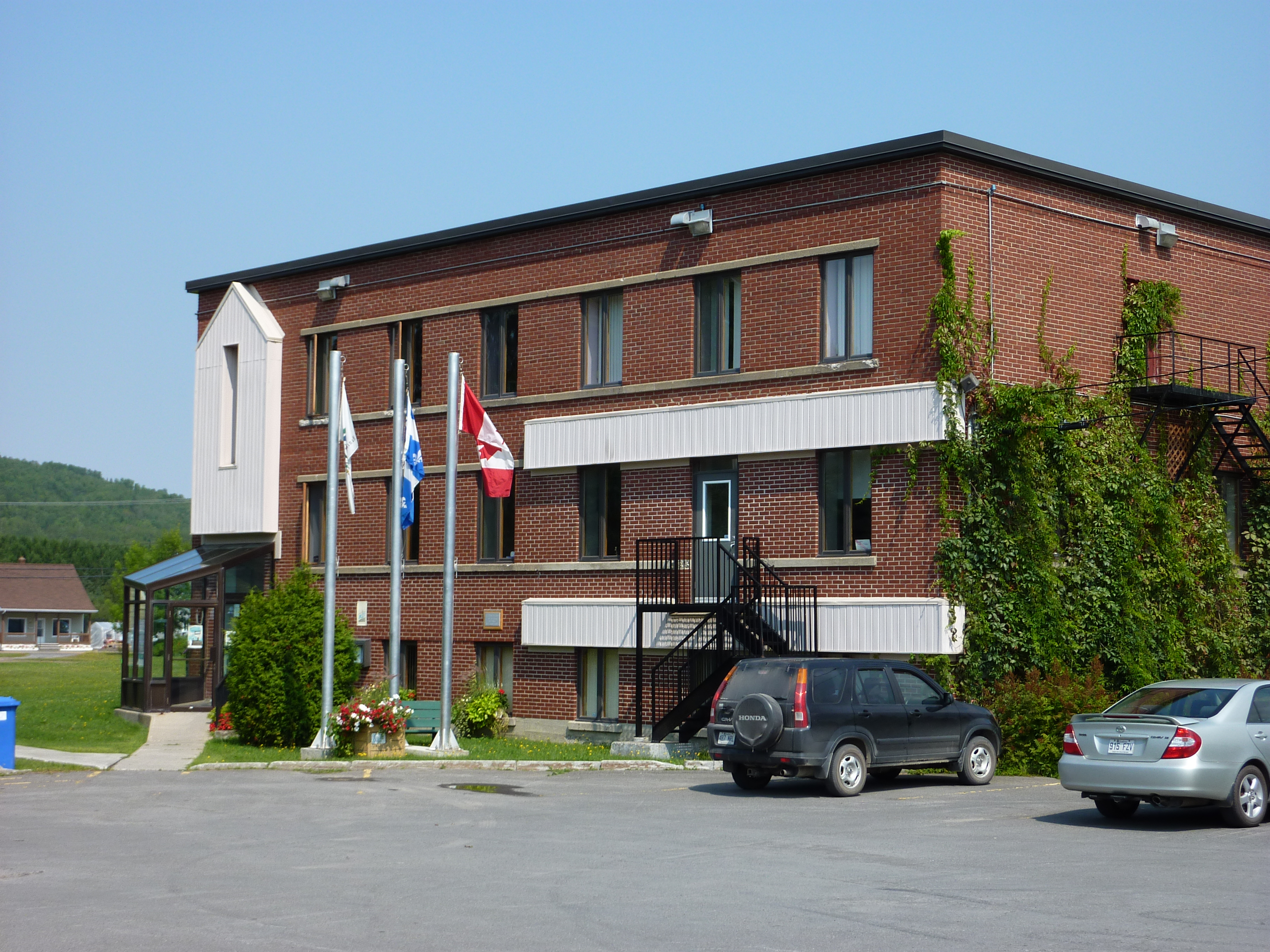 Town hall of Sayabec, Qc